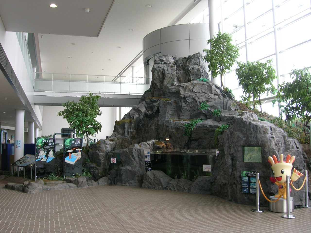 Aichi Prefecture Sewage Science Museum. Loc: Inazawa city, Aichi Prefecture, Japan. 愛知県下水道科学館・館内展示 撮影場所 愛知県稲沢市